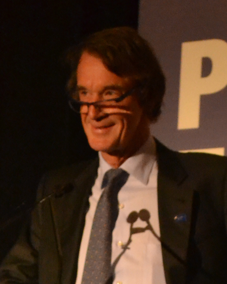 Photograph of Jim Ratcliffe, recipient of the 2013 Petrochemical Heritage Award, at the International Petrochemical Conference of the American Fuel and Petrochemical Manufacturers (AFPM: formerly NPRA), held March 24-26, 2013, at the Grand Hyatt San Antonio in San Antonio, Texas.